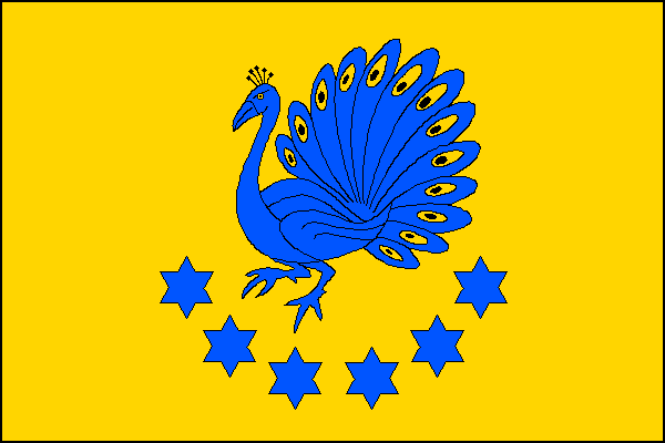 Municipal flag of Pavlov village, Šumperk District, Czech Republic.